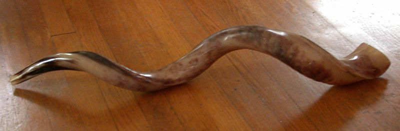 A Temani (Yemeni Jewish) style shofar made from a horn of the greater kudu.